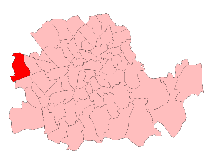 A map of Hammersmith North constituency within the London County Council area, as it existed from 1918 to 1949.